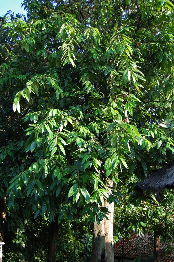 Bouea macrophylla, habits. Bogor, West Java, Indonesia